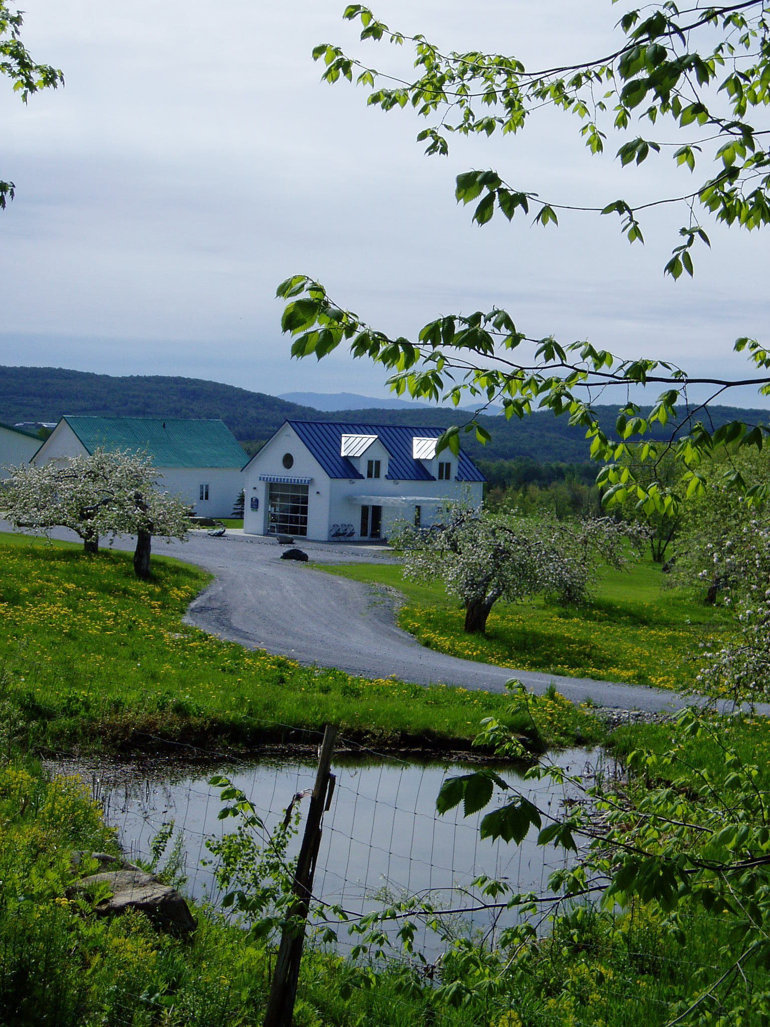 Domaine Pinnacle boutique.